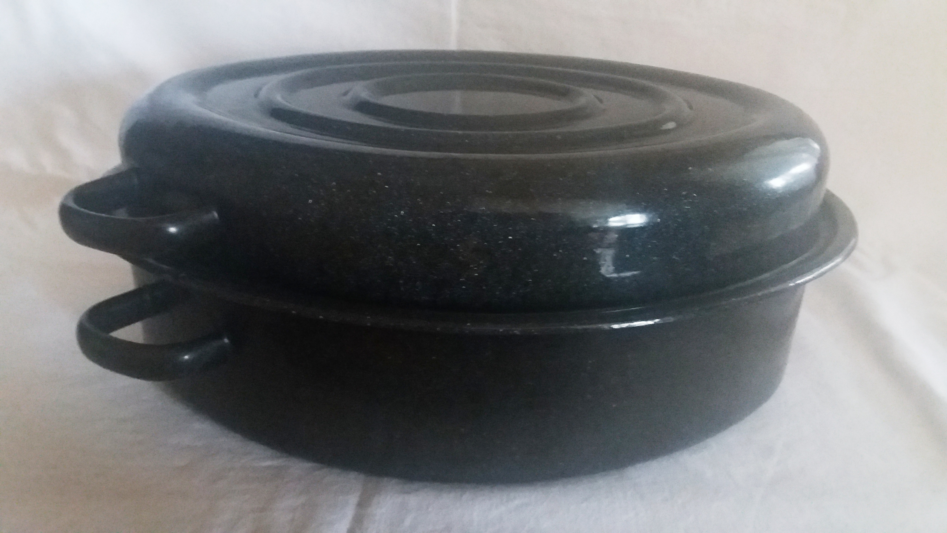 Enamelled baking dish with lid